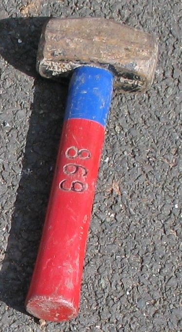 A lump hammer in red and blue